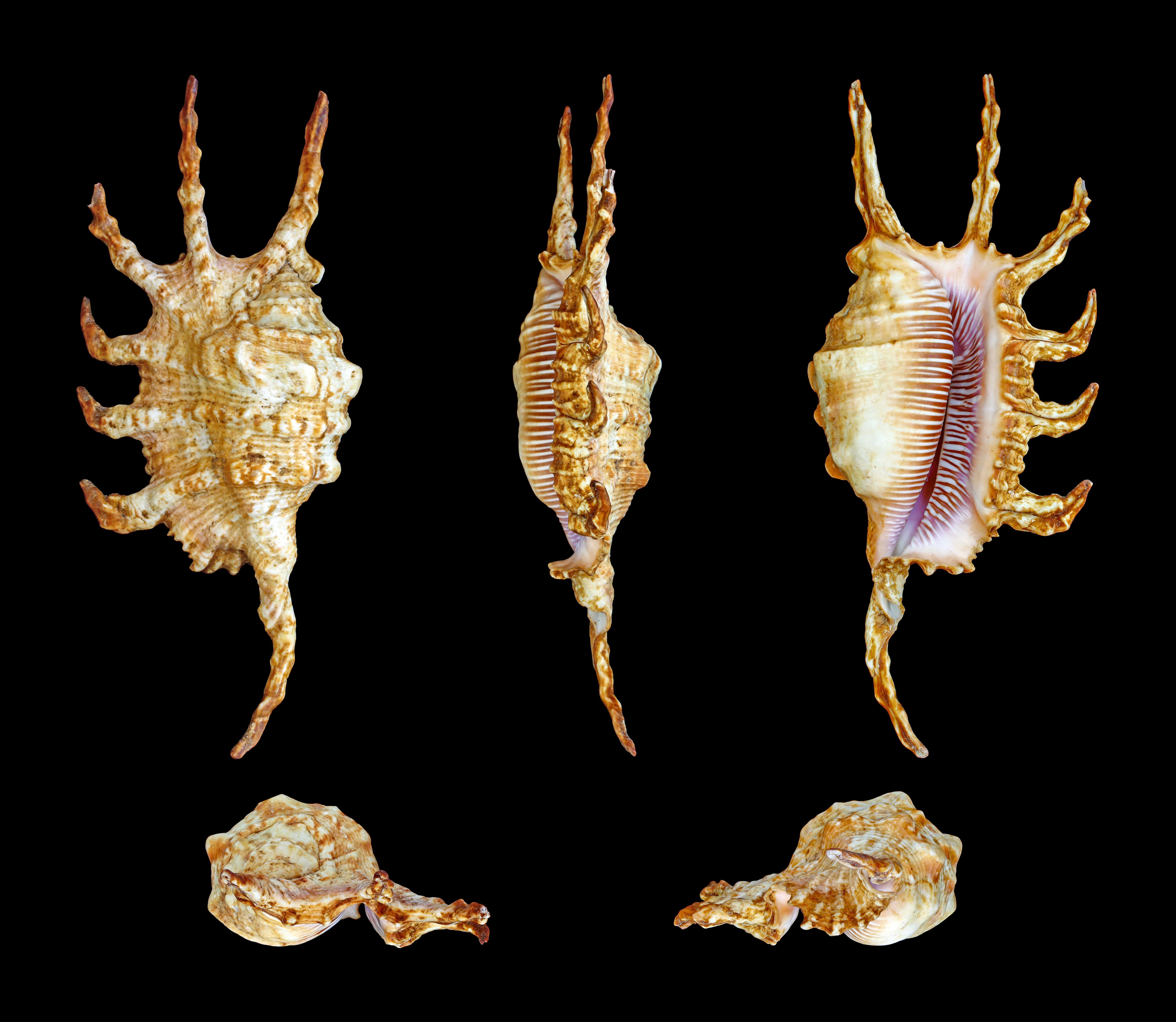 Lesser Scorpion Conch, Length 14.9 cm; Originating from Thailand; Shell of own collection, therefore not geocoded. Dorsal, lateral (right side), ventral, back, and front view.